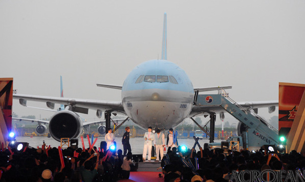 The 2010 Korean Air OnGameNet Starleague Season 1 finals featuring Flash and EffOrt in South Korea